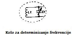 Kolo_za_determinisanje_frekvencije1